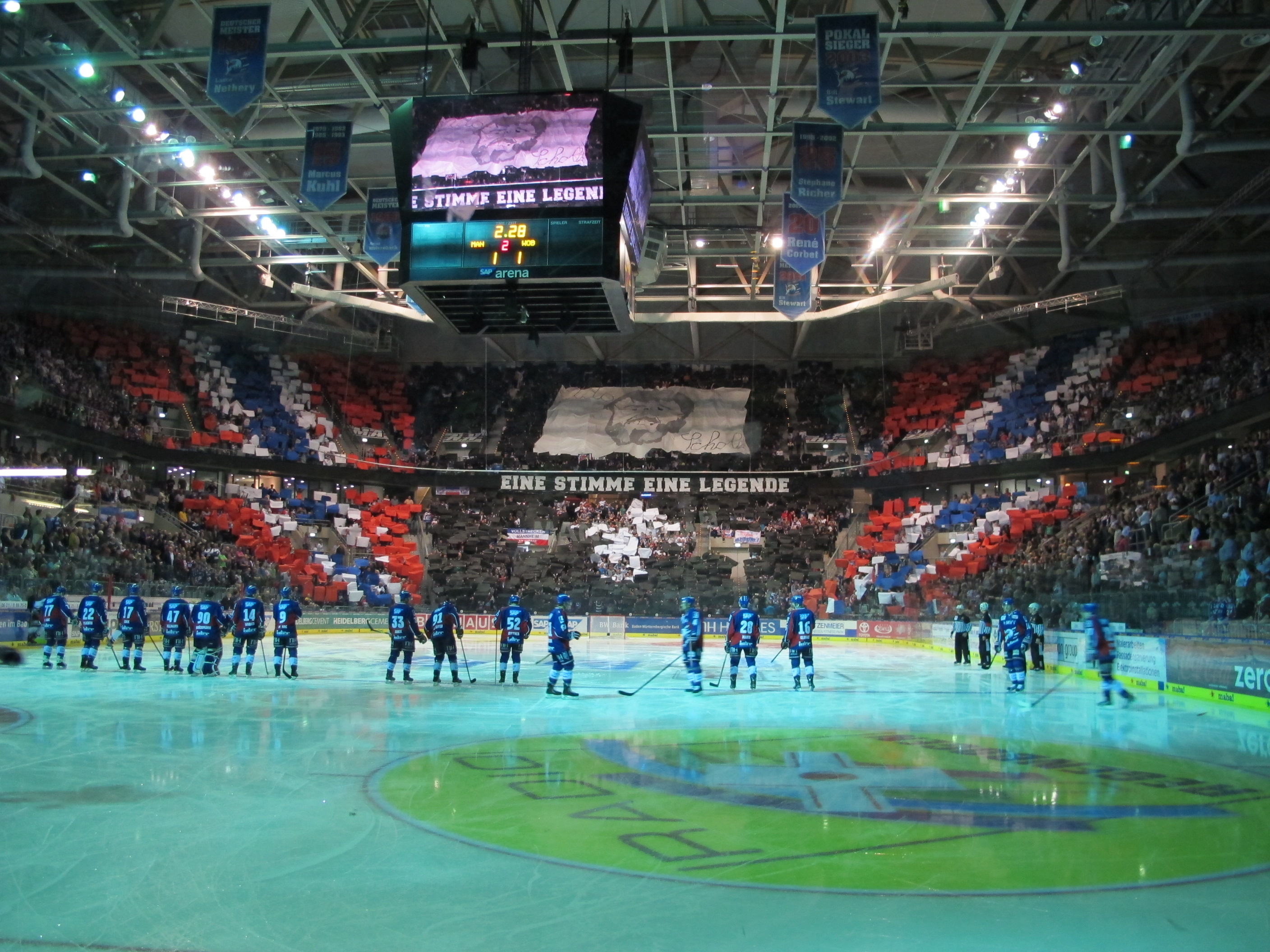 Supporters of the Adler Mannheim, 2012